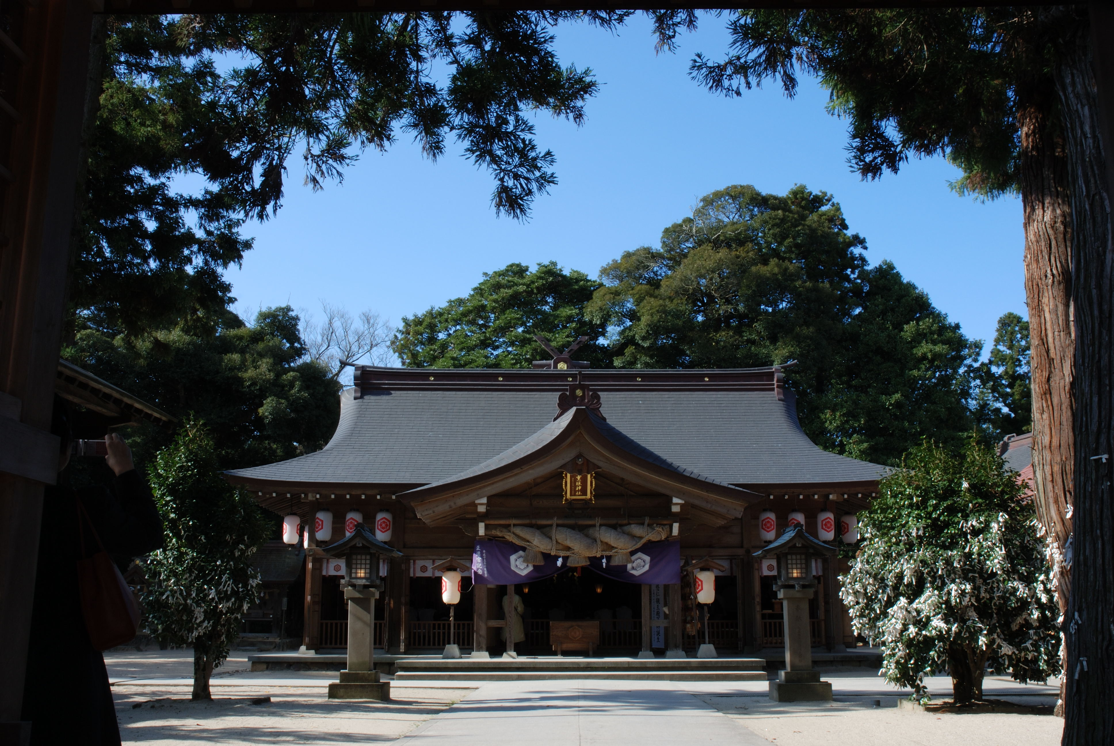 'Yaegaki jinja' is a shinto shrine in Matsue city, Shimane prefecture, Japan.